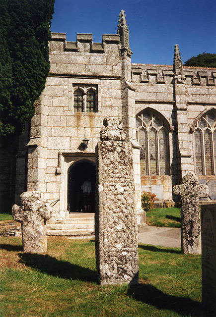 Crosses in St Neot's parish churchyard, St Neot, Cornwall, with the south porch of the church in the background.Several ancient crosses stand in the churchyard, and the carved cross probably dates from about the 10th century. Another carved cross of this type can be seen at Copplestone, near Crediton, in Devon, which has been credited as Saxon sculpture rather than Cornish.